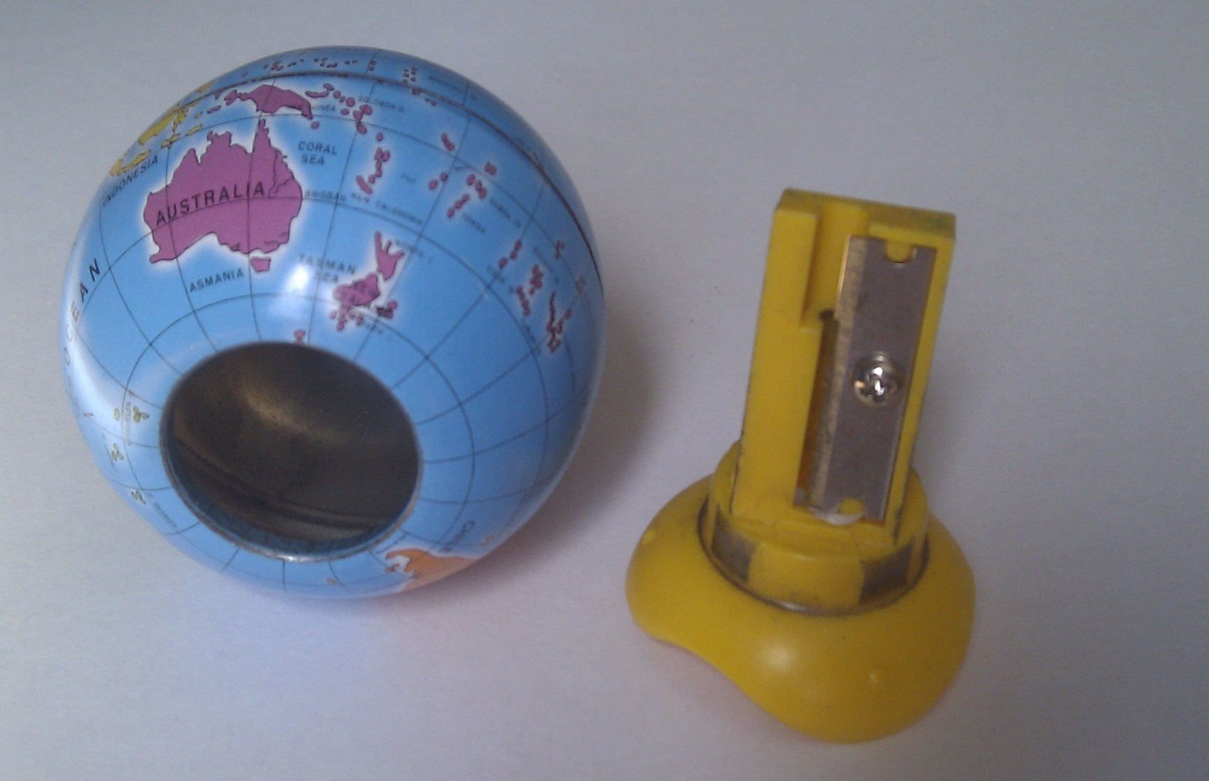 Dismantled pencil sharpener in the shape of the globe